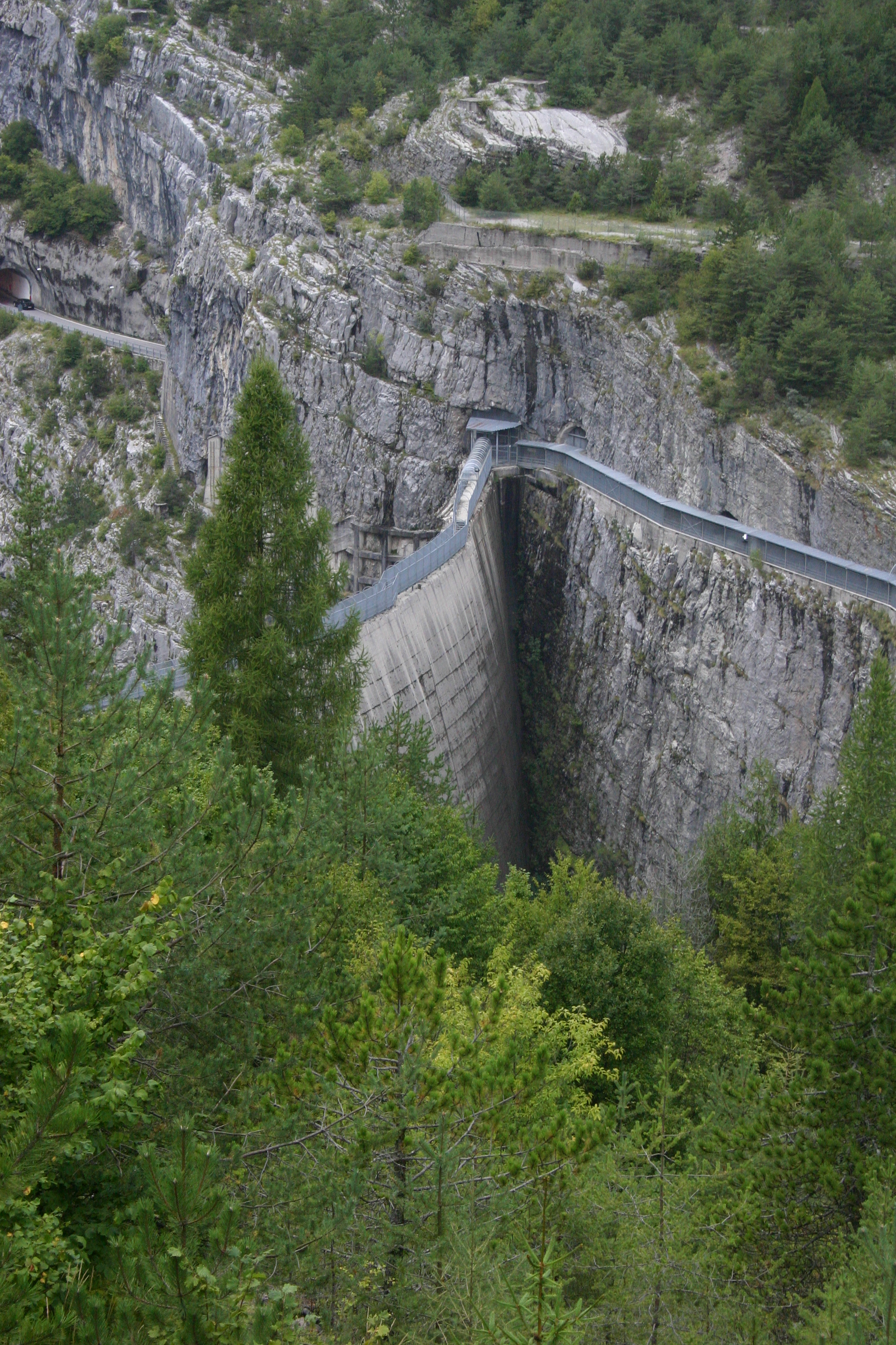 Vajont dam, Dolomites, Italy